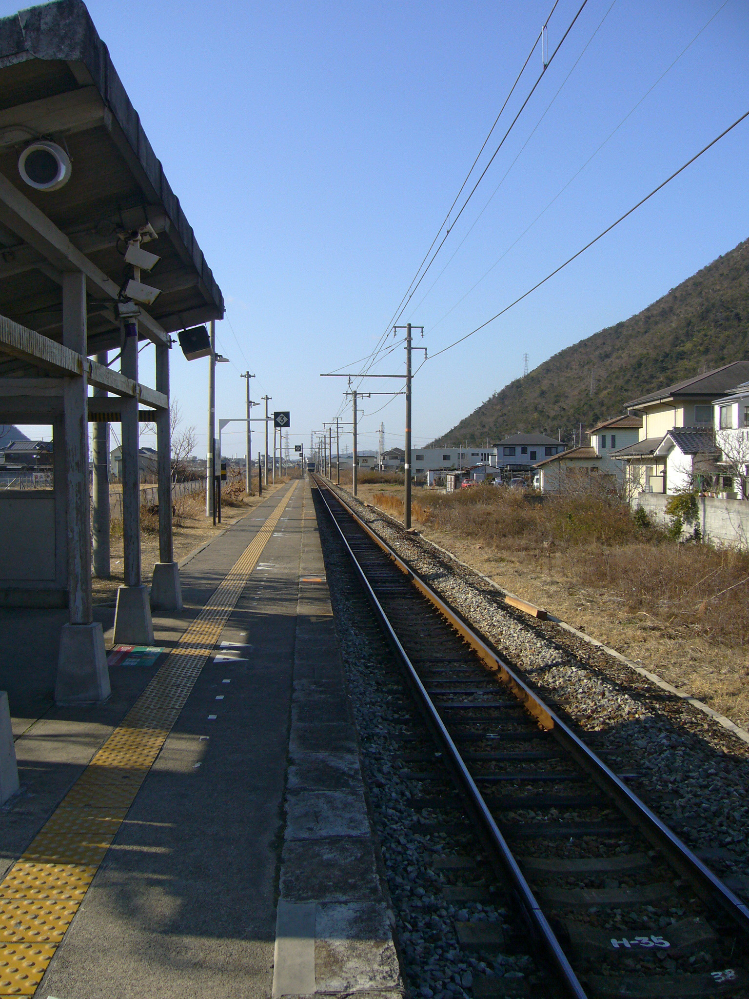 Sakoshi Station, Akō, Hyōgo, Hyogo prefecture, Japan